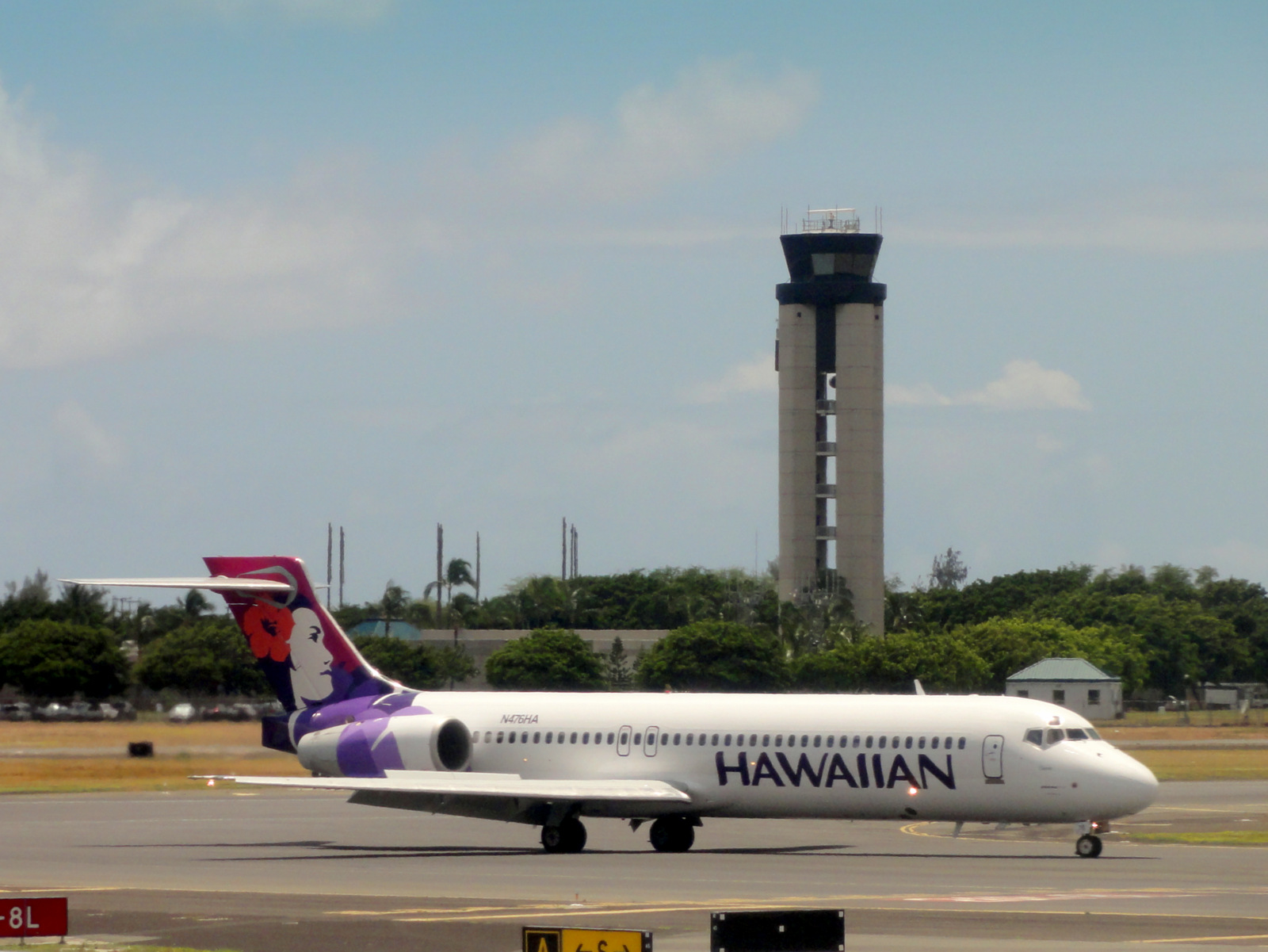 A Hawaiian Airlines Boeing 717 in Honolulu International Airport